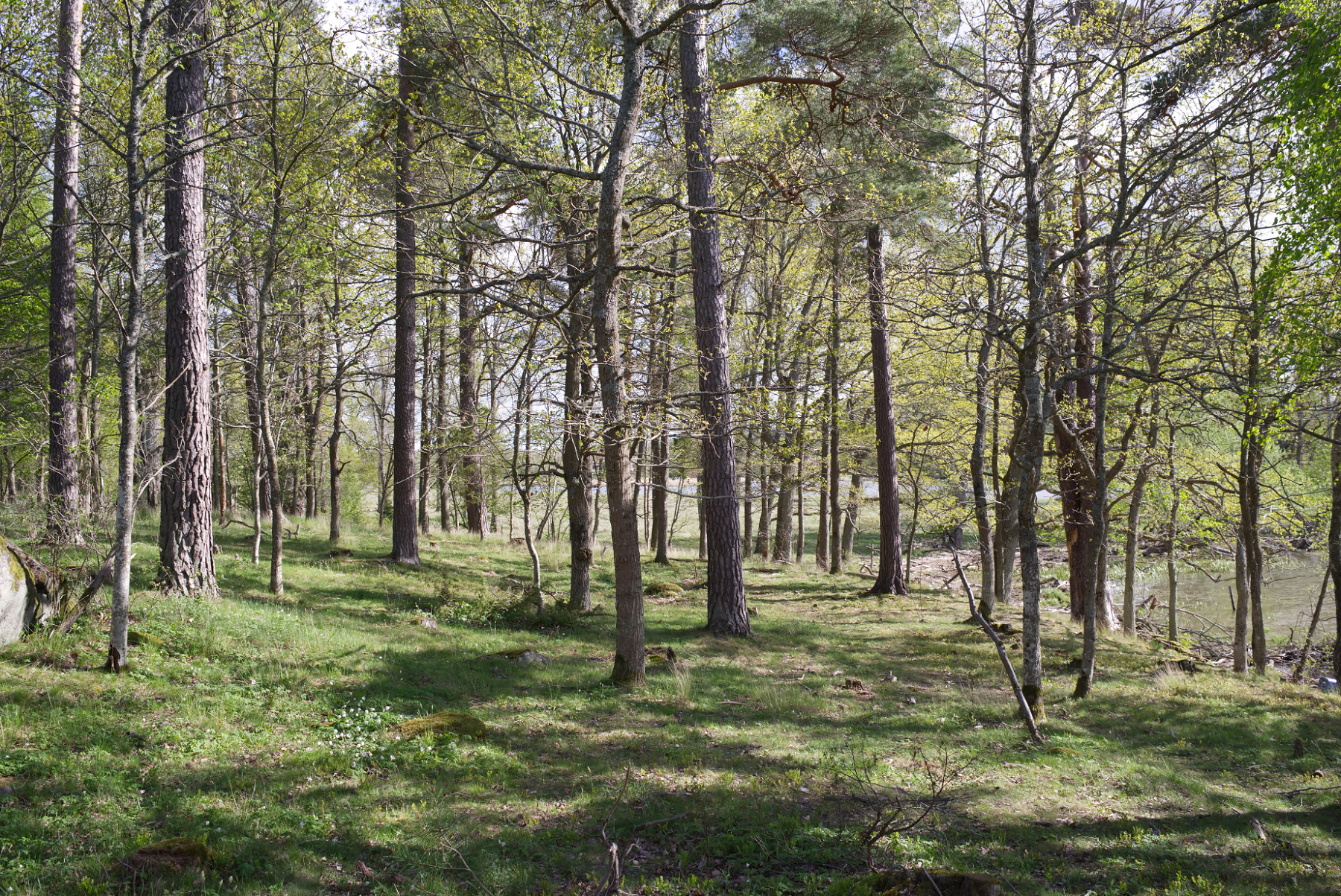 Open woodland that lets the light in